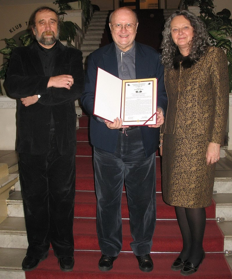 Marek Rymuszko & François Brune &Anna Ostrzycka in Warsaw (2008).